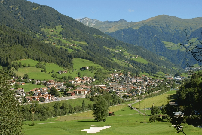 St. Martin Passeiertal